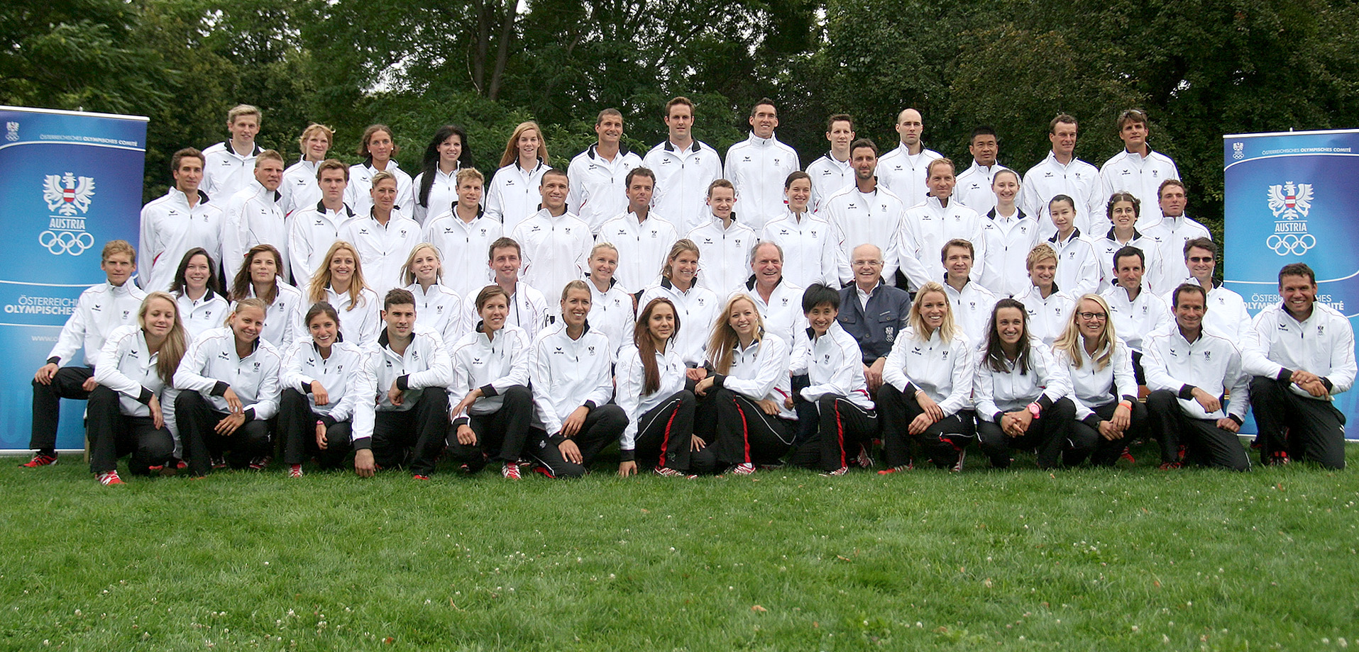 Austrian athletes, but not the full squad, for the 2012 Summer Olympics in London (Stadtpark, Vienna).